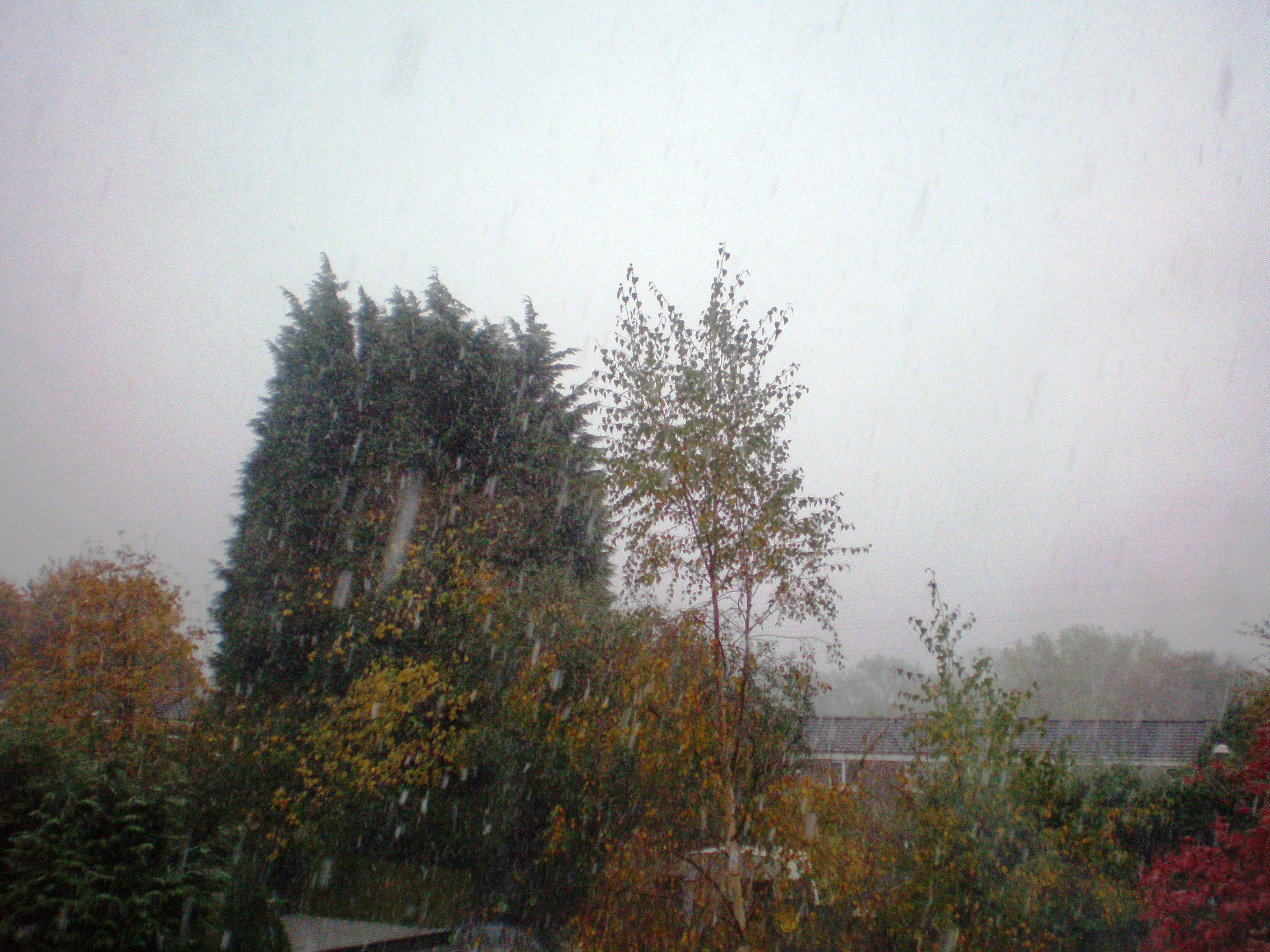 Sleet in Birmingham, UK. Note: This not sleet according to the American definition, but by the British definition. American "sleet" is actually ice pellets while British "sleet" is a mixture of rain and snow.